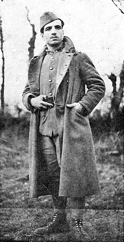 Missak Manouchian while on furlough in 1940. From the Main foreign Work FTP-MOI.